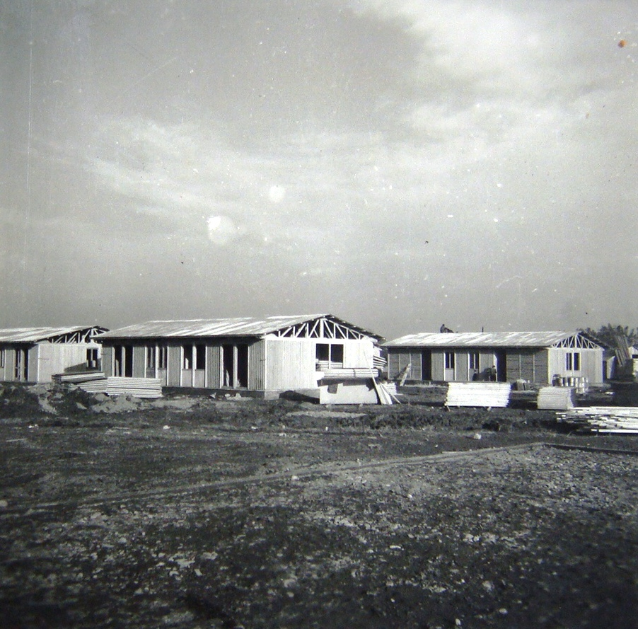 1963 Skopje earthquake: Construction of prefabricated buildings in Madzari This media file is produced by Wikipedian in Residence in Category:Wikipedian in Residence at DARM in 2016.